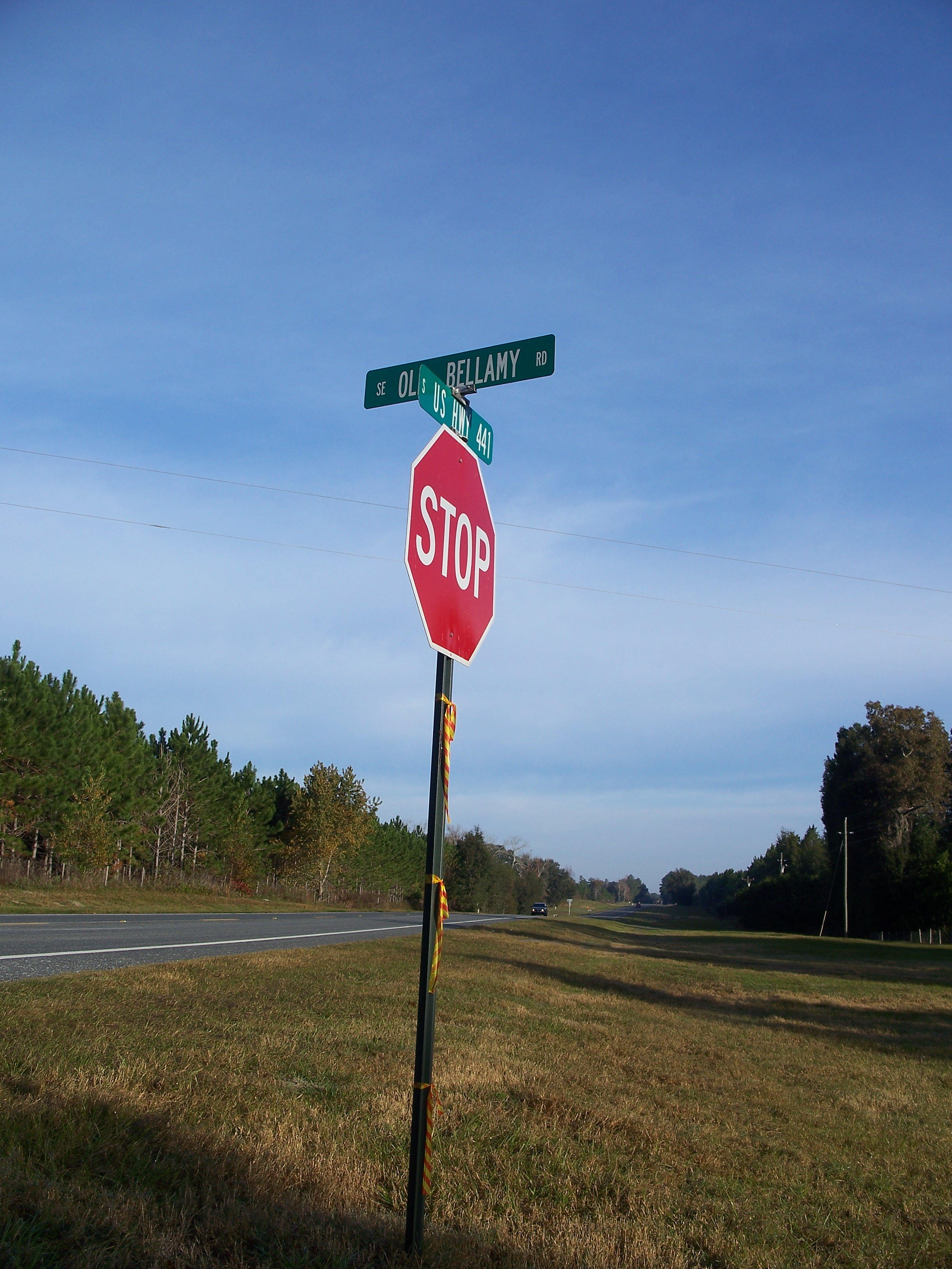 High Springs, Florida: Old Bellamy Road sign on US 441/US 41, south of O'Leno State Park.